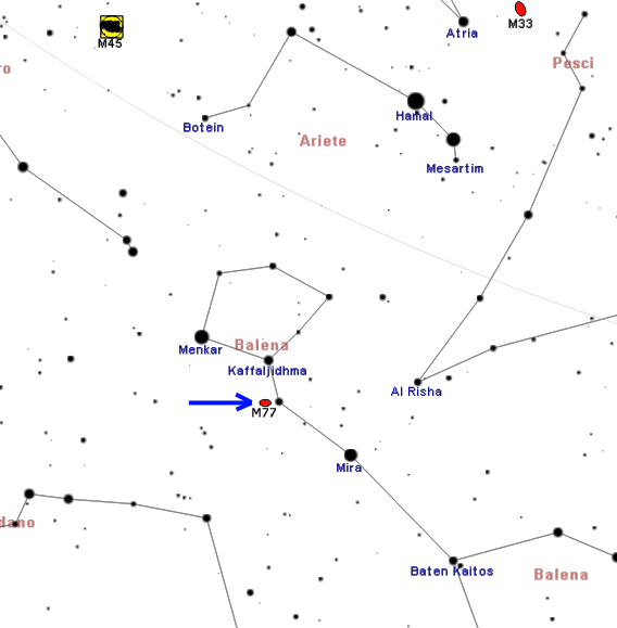 M77